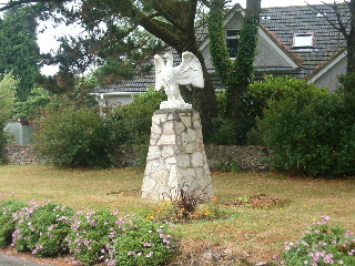 Photo taken at the POW camp at Whitecross by in 2005